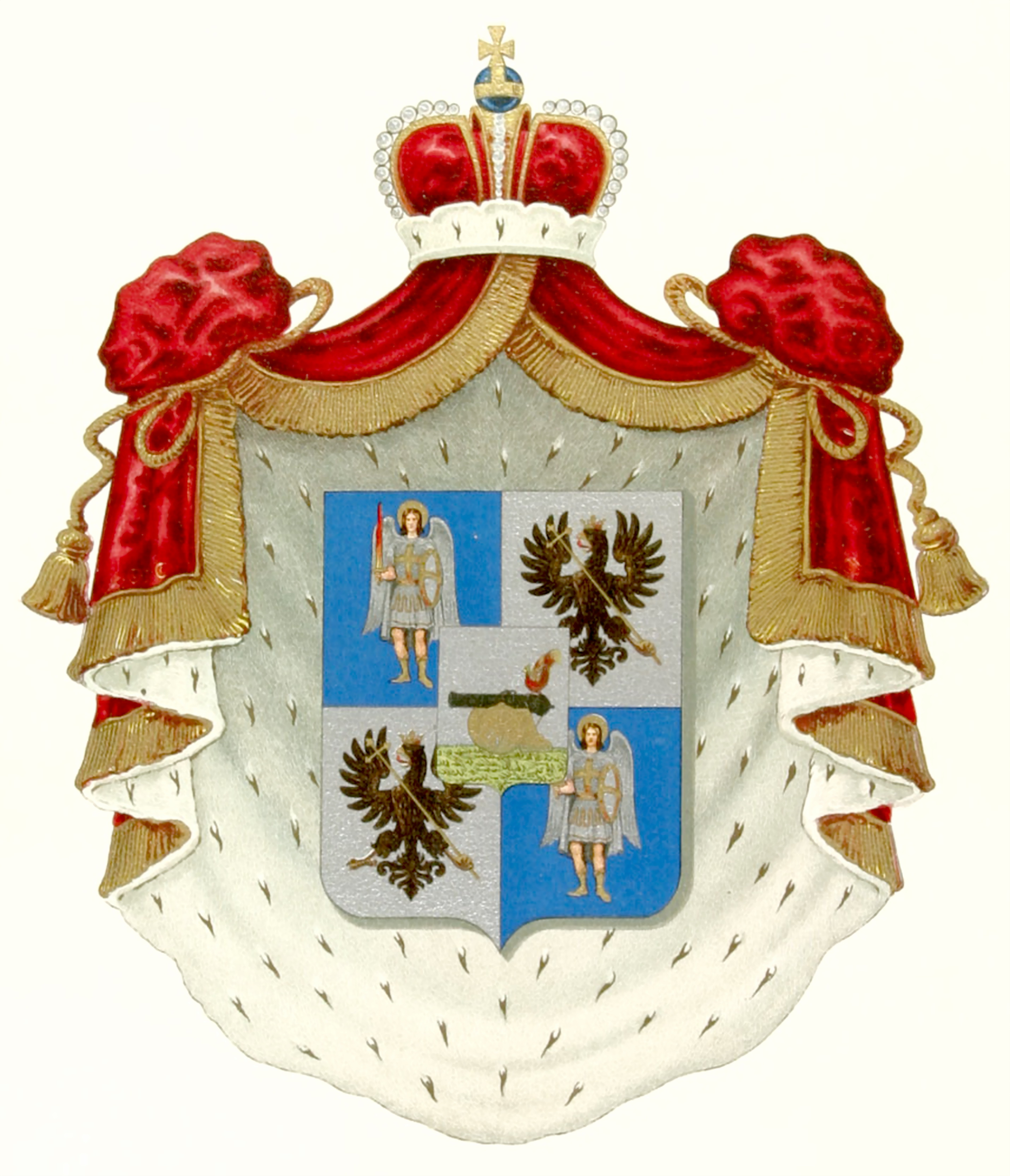 Coat of Arms of prince Kozlovsky